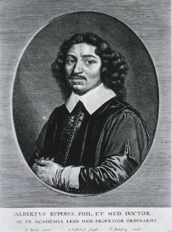 Albert Kyper / Albertus Kyperus, professor Leiden University (medicine)